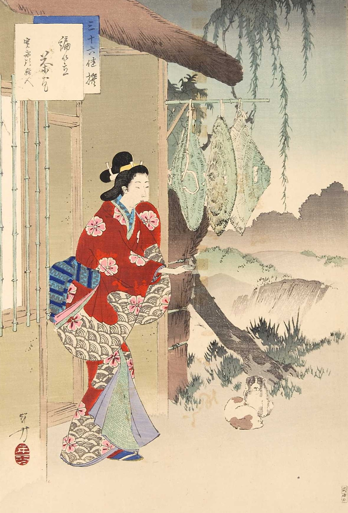 Teahouse with Rainhats: Women of the Kan'ei Era[1624-44], from the series Thirty-six Elegant Selections, woodblock print